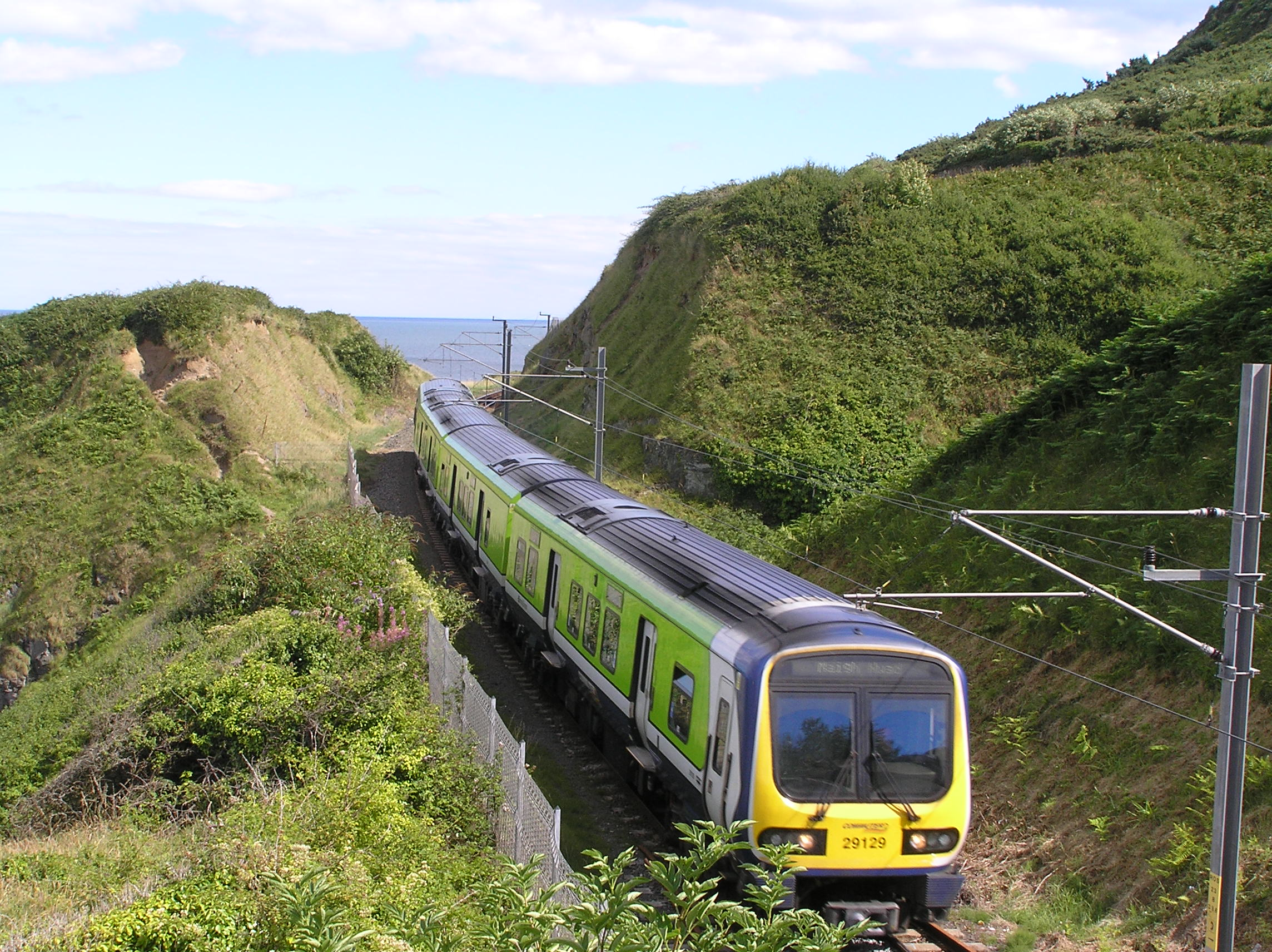 View of DART approaching Bray from Greystones via Bray head taken at the foot of Bray head in Co. Wicklow, Bray, Ireland in Aug 2010